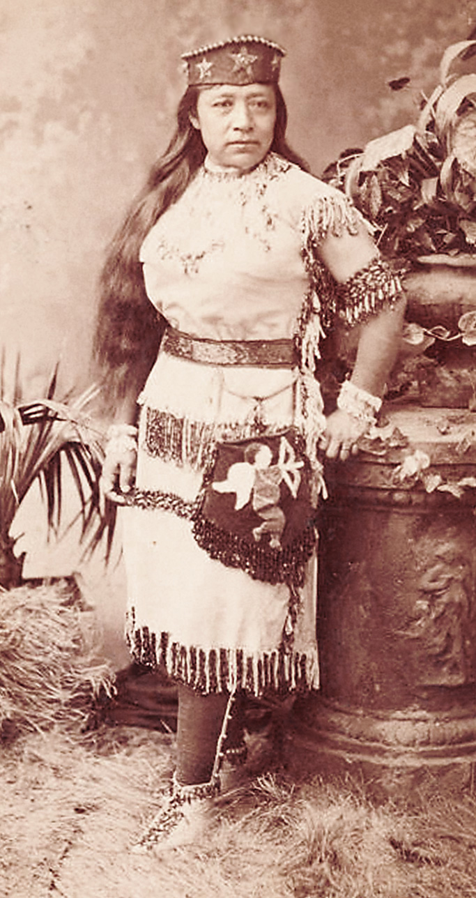 Studio portrait of Sarah Winnemucca Hopkins in beaded dress and moccasins taken by Elmer Chickering of Boston, Massachussetts, c. 1883, as part of publicity for her lectures in that city.